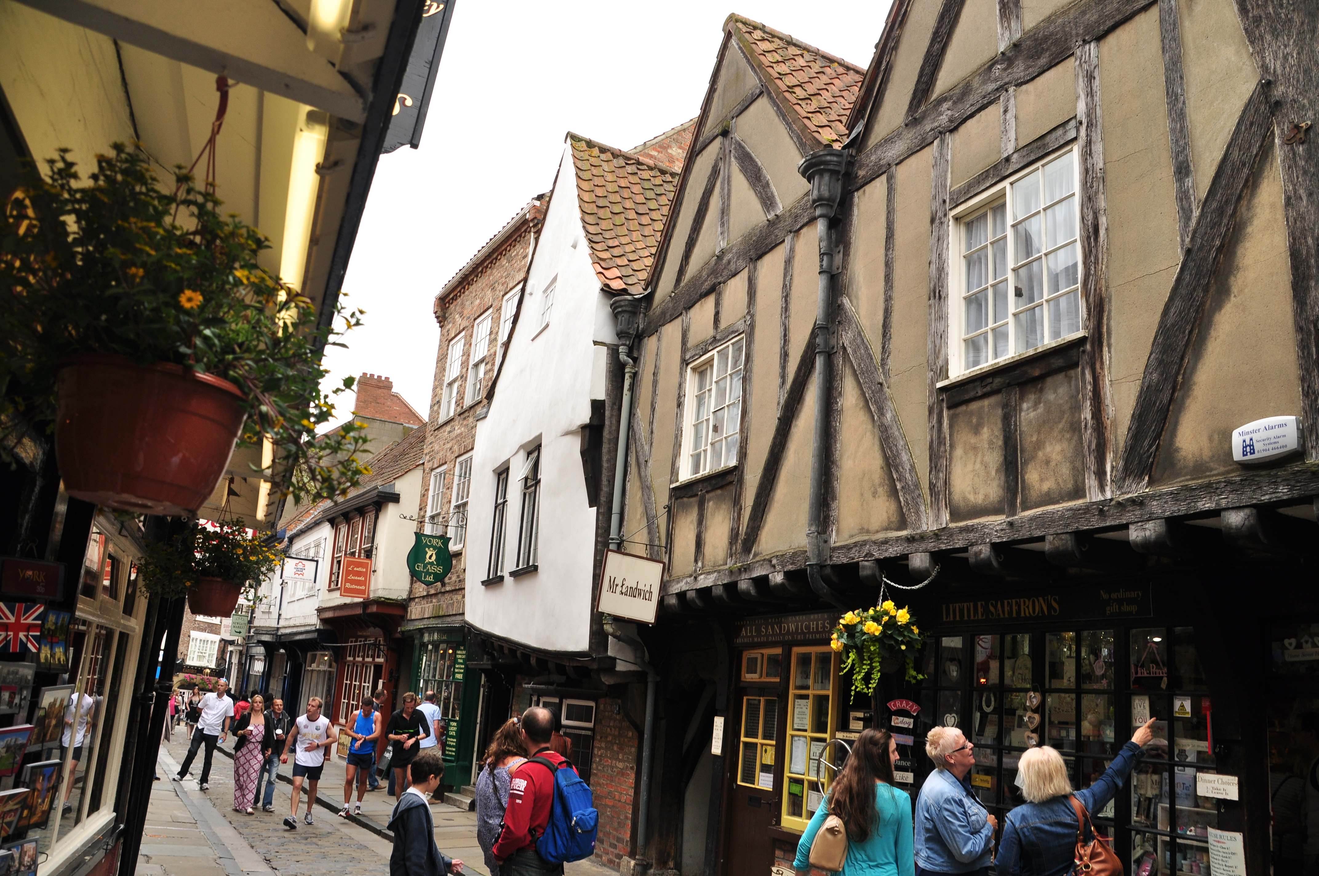 The Shambles, York